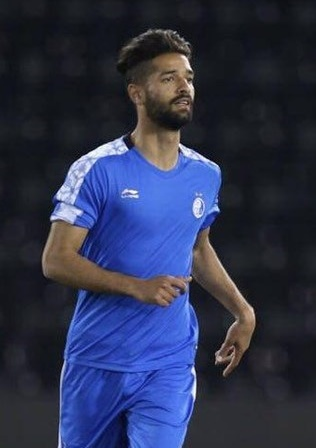 Armin Sohrabian